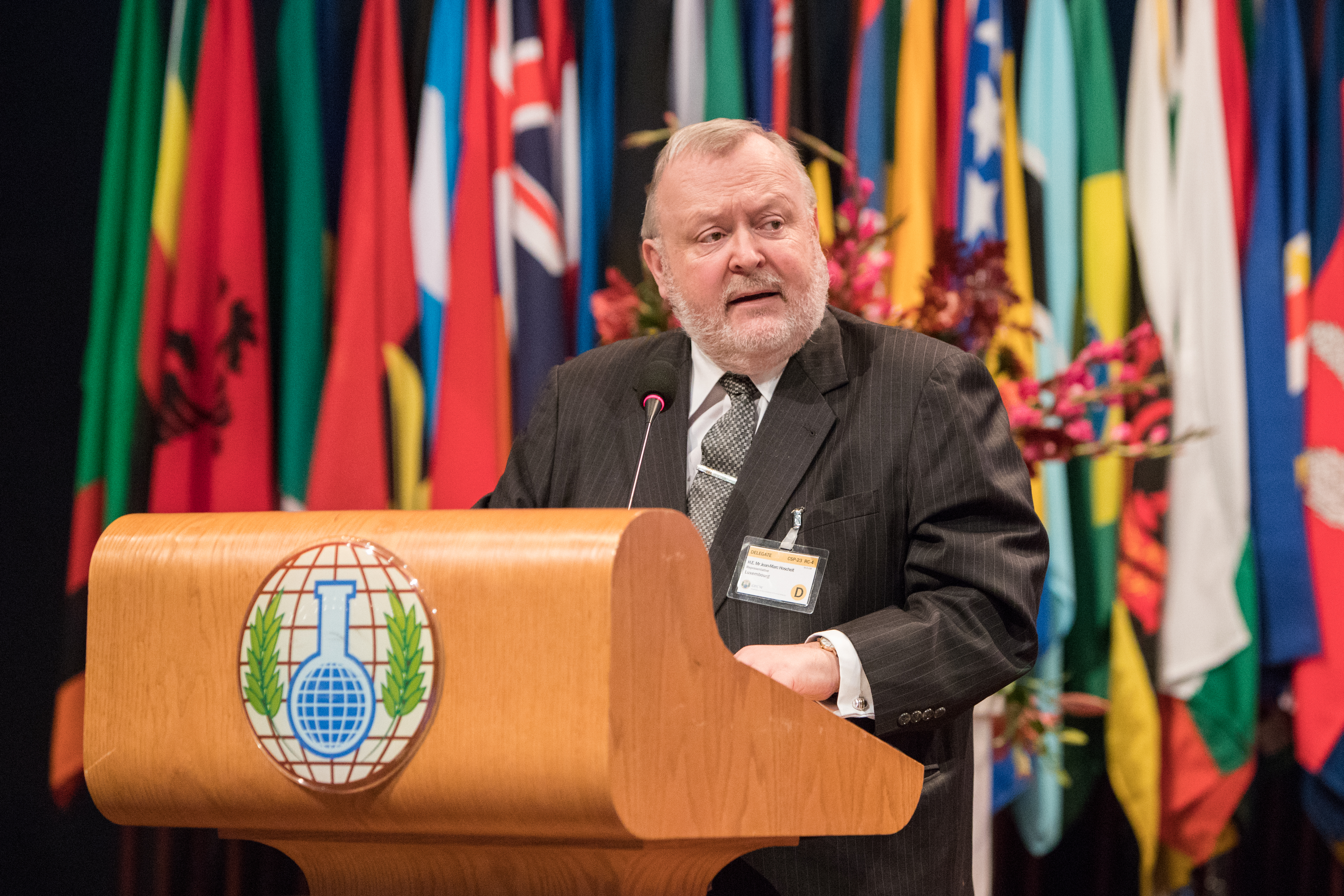 H.E. Mr Jean-Marc Hoscheit, Permanent Representation of Luxembourg to the OPCW, speaking at OPCW's Fourth Review Conference. The Conference is held at the World Forum, The Hague, the Netherlands, from 21-30 November 2018.